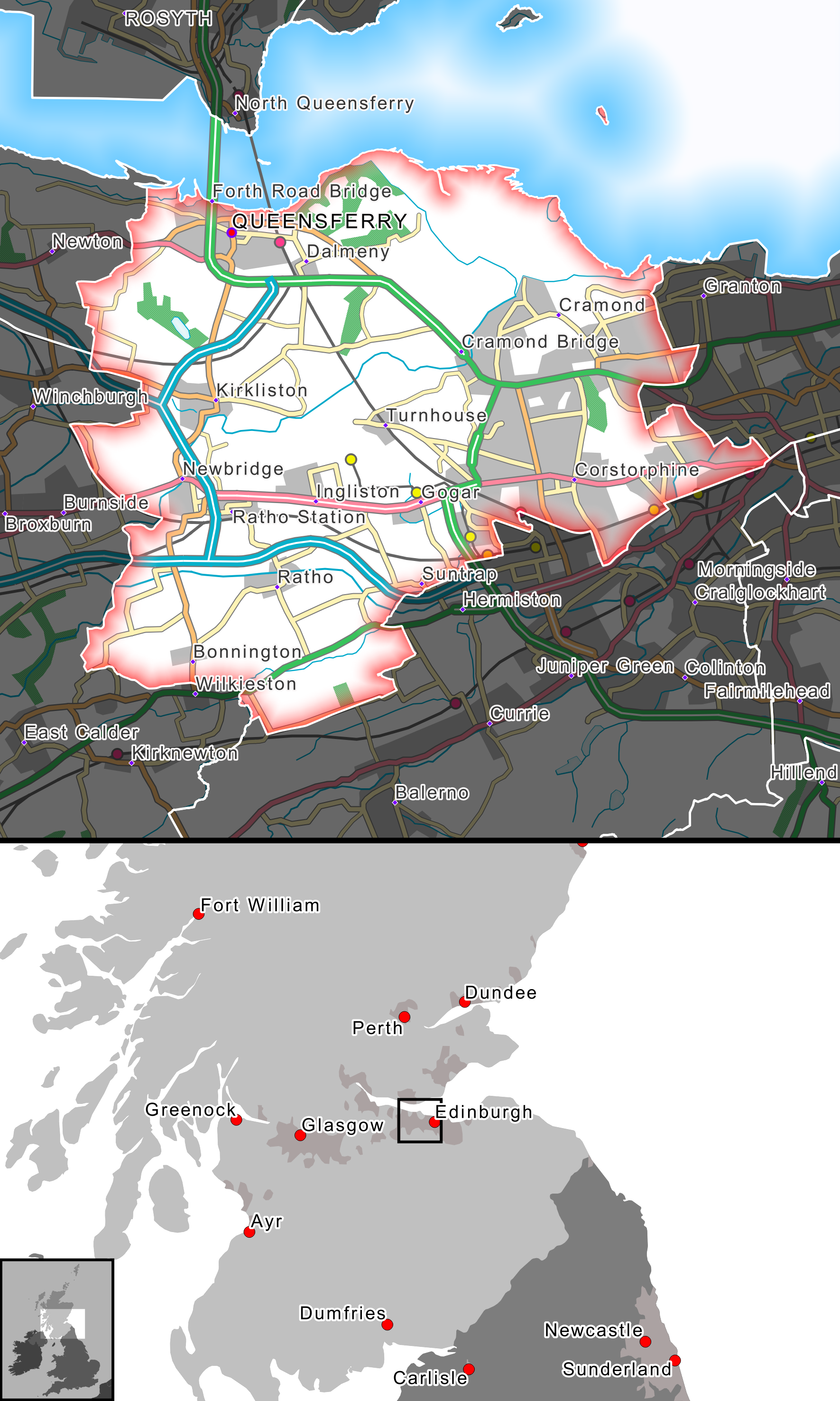 In British National Grid. Contains OS data © Crown copyright [and database right] 2015